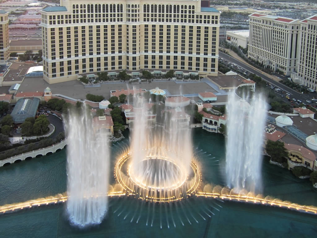 The Fountains of Bellagio at Las Vegas, Nevada, provide a spectacular free show several times an hour day and night..